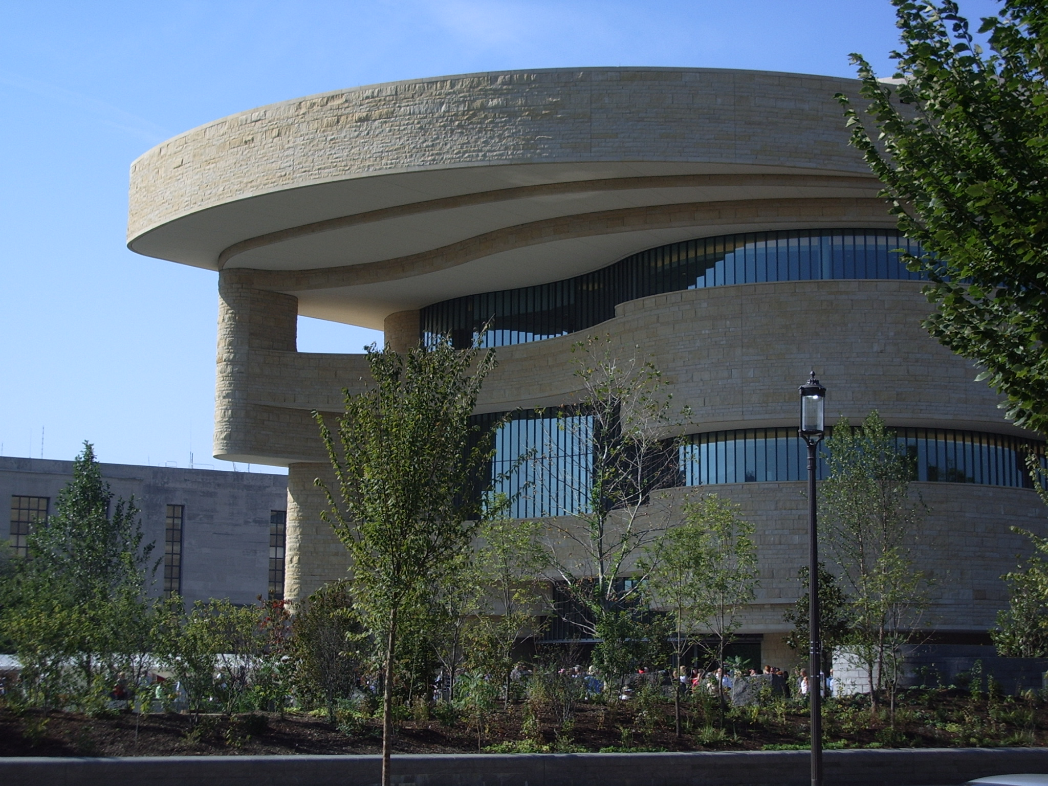 Taken by Biggins and released into the public domain. See also the smaller version (only difference is jpg instead of JPG in the filename)